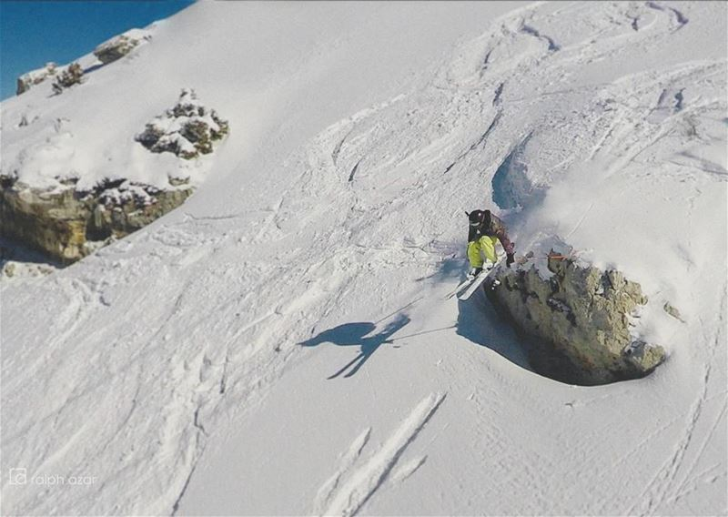 Jump-away-snow-skiing-mountains-bsharri lebanon